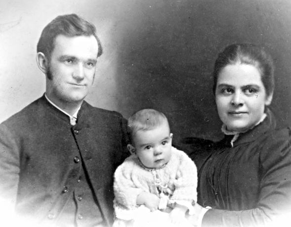 Dr. W. B. Page and family. This picture was taken just before the Pages went to India in 1898. Citation: Mennonite Board of Missions Photographs, 1898-1967. IV-10-007.2 Box 4 Folder 7. Mennonite Church USA Archives - Goshen. Goshen, Indiana.